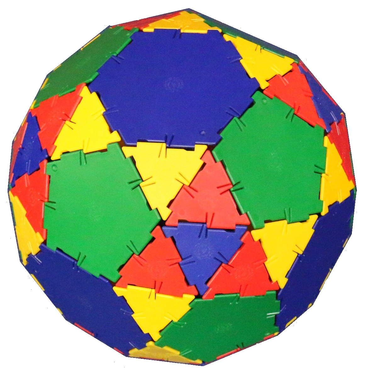 raytracing Pyritohedral near-miss Johnson solid